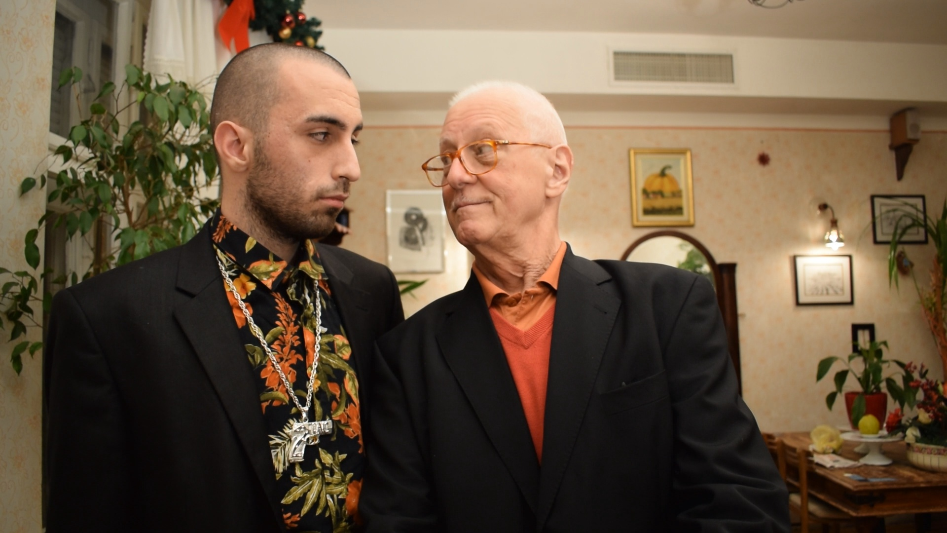 Micko Markovic & Aljosa Vuckovic in movie 2017